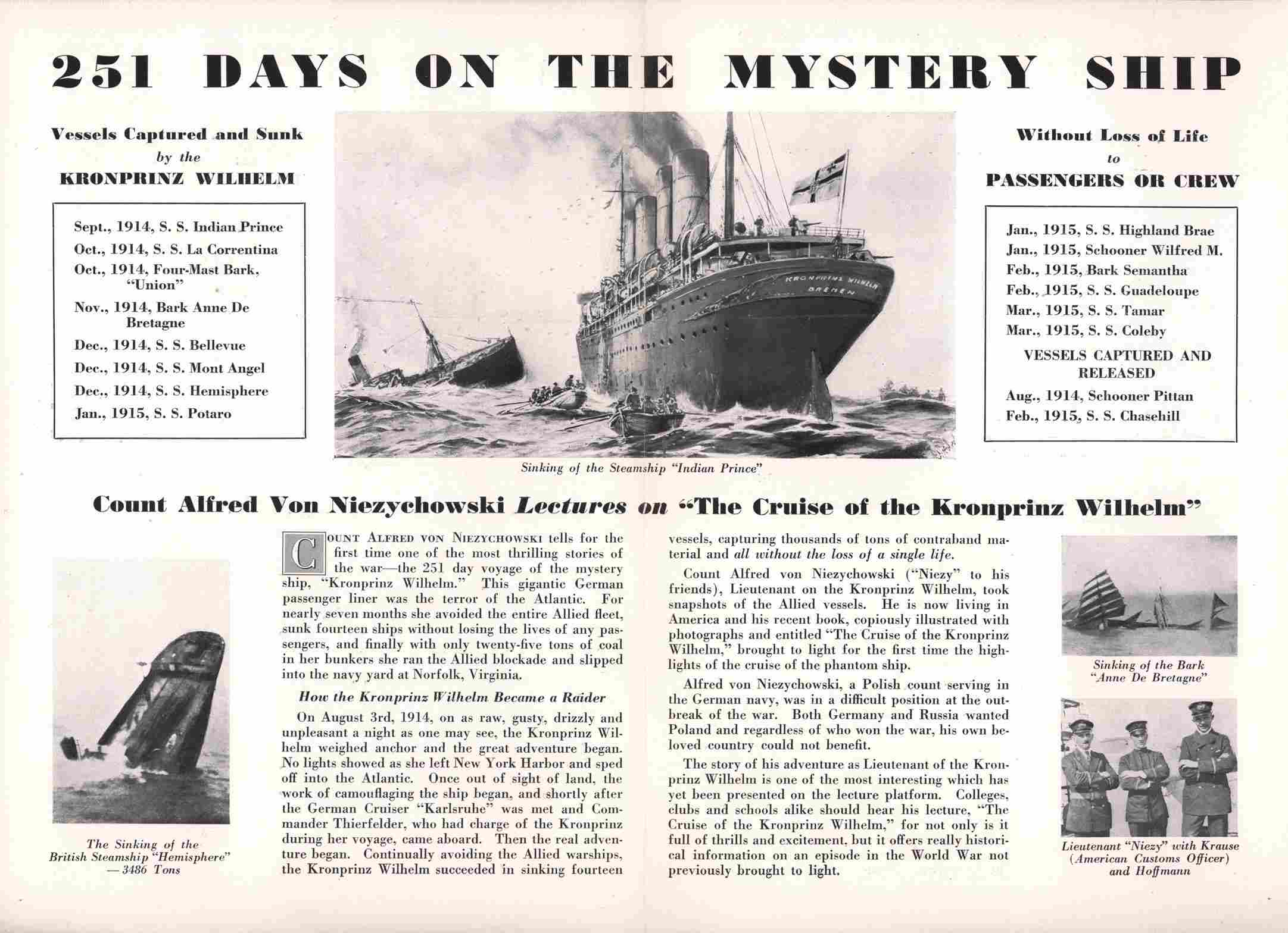 Flyer promoting lectures by Alfred Niezychowski, World War I officer aboard the SS Kronprinz Wilhelm